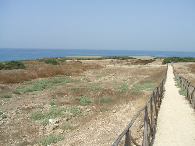 Camarina archaeological site : view of the agora from the east, coming from the Athena sanctuary.